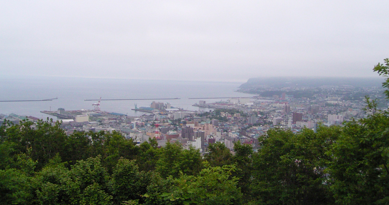 Overview of Otaru, Hokkaidō, Japan